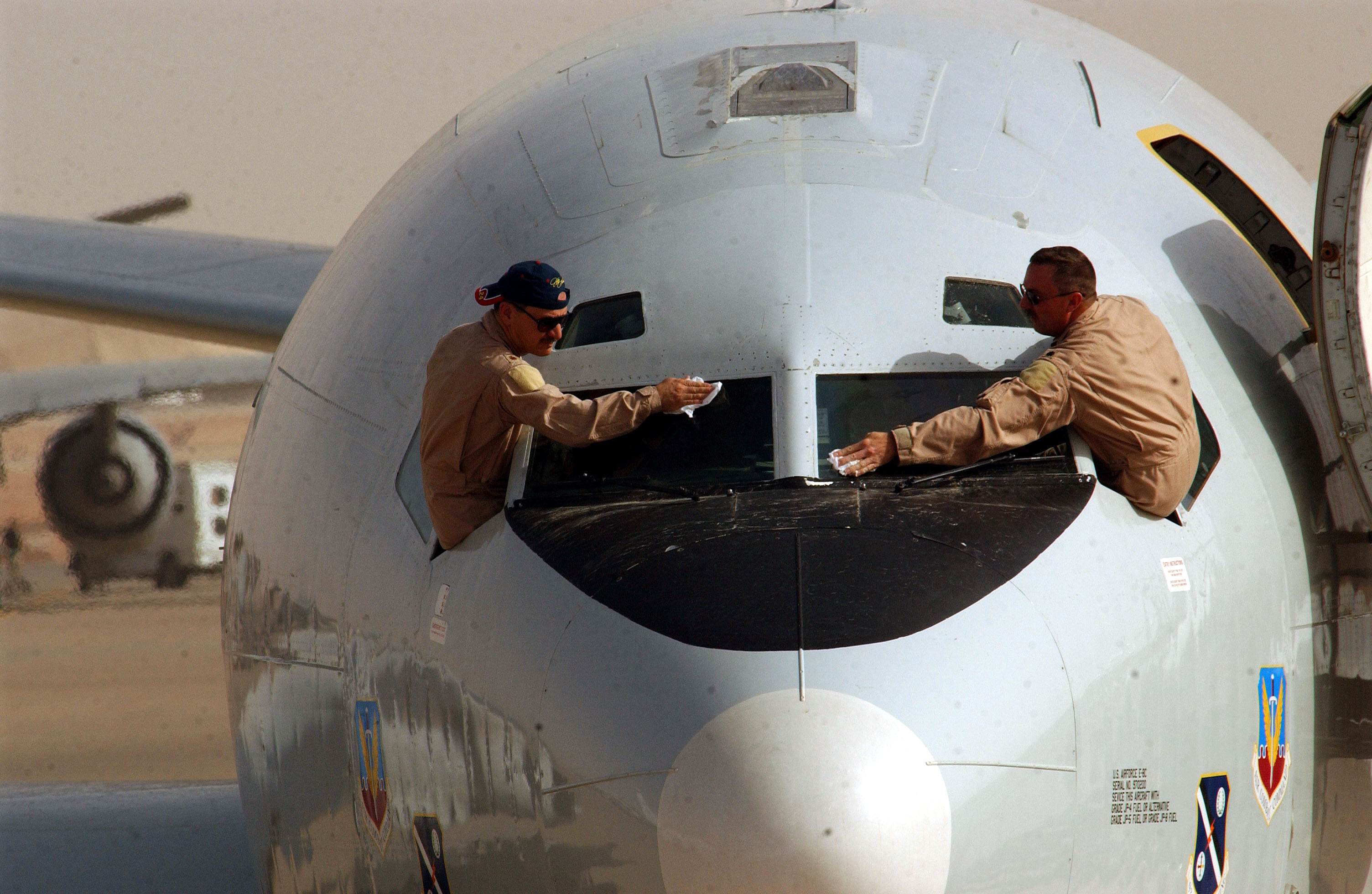 Maj. Robert Komlo and Lt. Col. Keith Turner, both E-8 Joint Surveillance Target Attack Radar System pilots deployed from Robins Air Force Base, clean their windshield before taking off for a mission April 21.